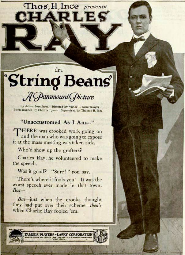 Advertisement for the American comedy film String Beans (1918) with Charles Ray, on page 13 of the January 4, 1919 Moving Picture World.